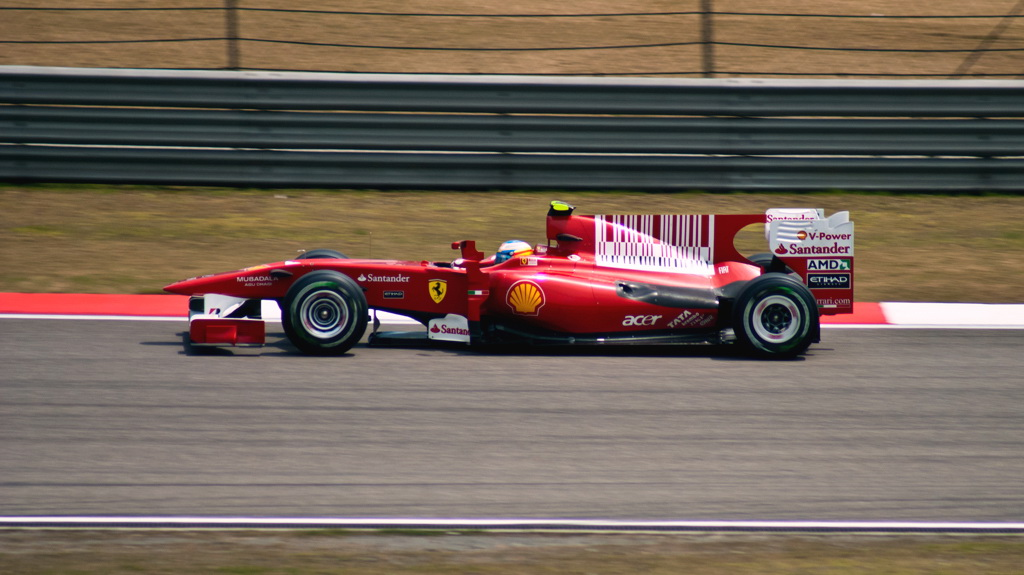 Qualification races on Saturday.